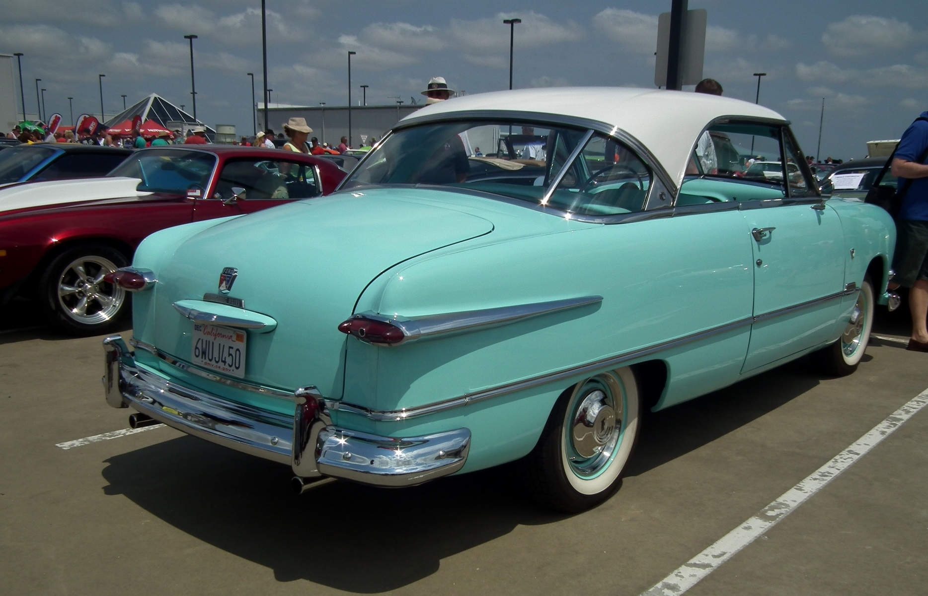 1951 Ford Victoria coupe. Taken at the 2014 New South Wales All American Day, held at Castle Towers Shopping Centre, Castle Hill, Sydney.